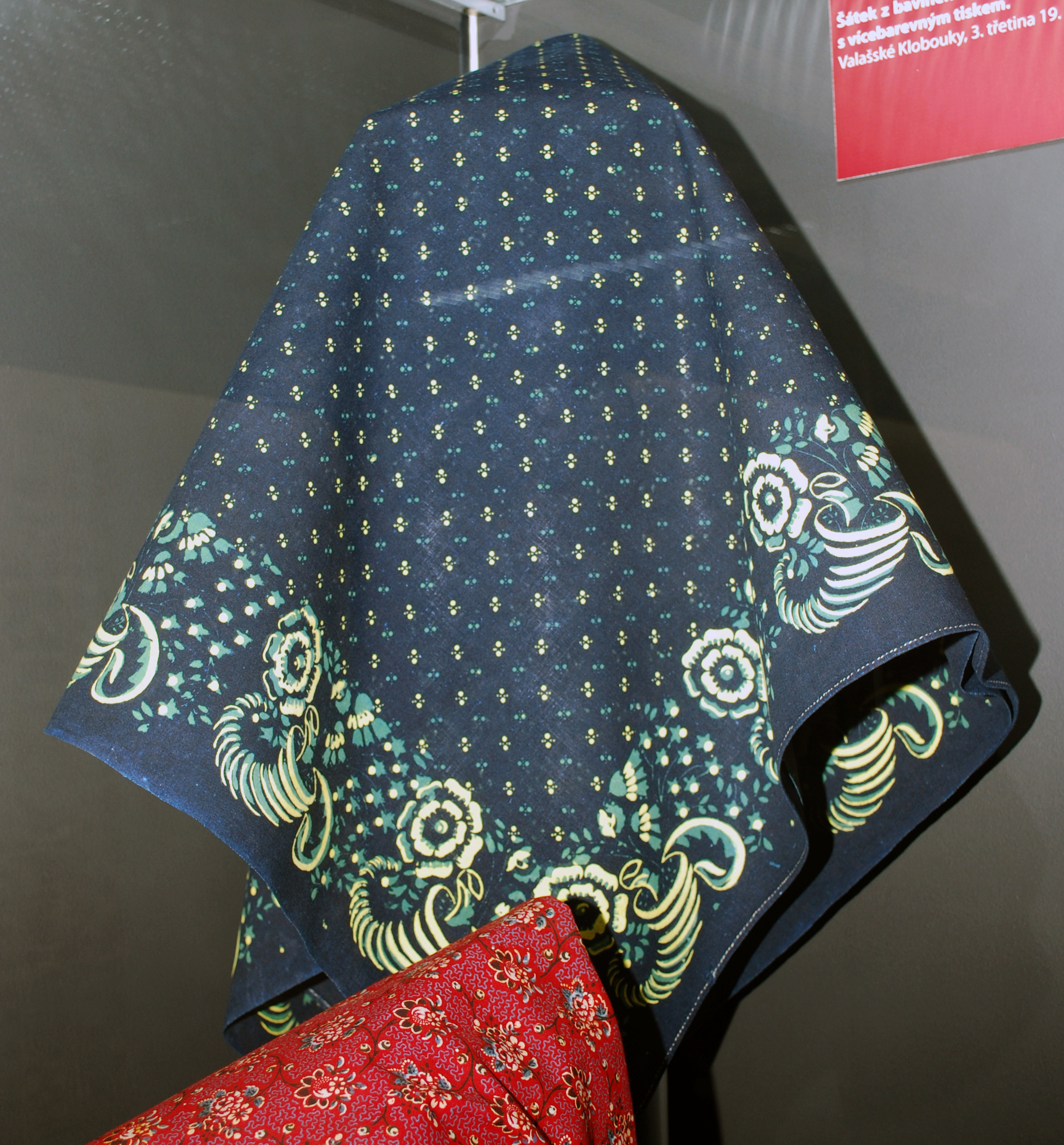 Cotton sling 3 c. Nineteenth century